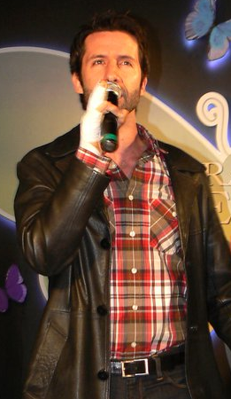 Musical artist Marco Zunino Costa hosted an event on June 3, 2010.